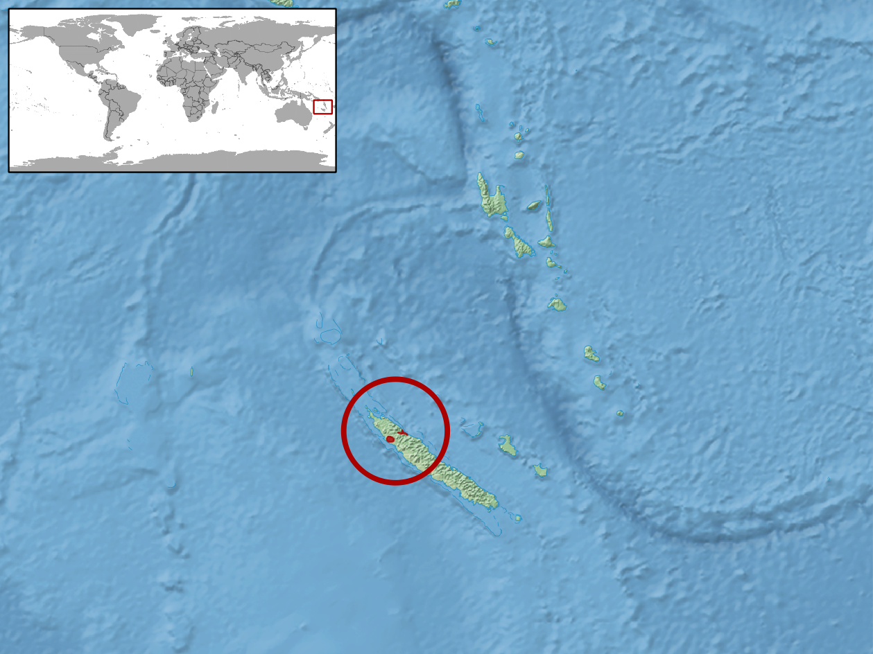 geographic distribution of Celatiscincus similis